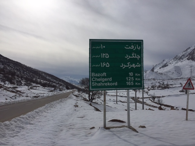 Traffic sign in Chaharmahal and Bakhtiari Province